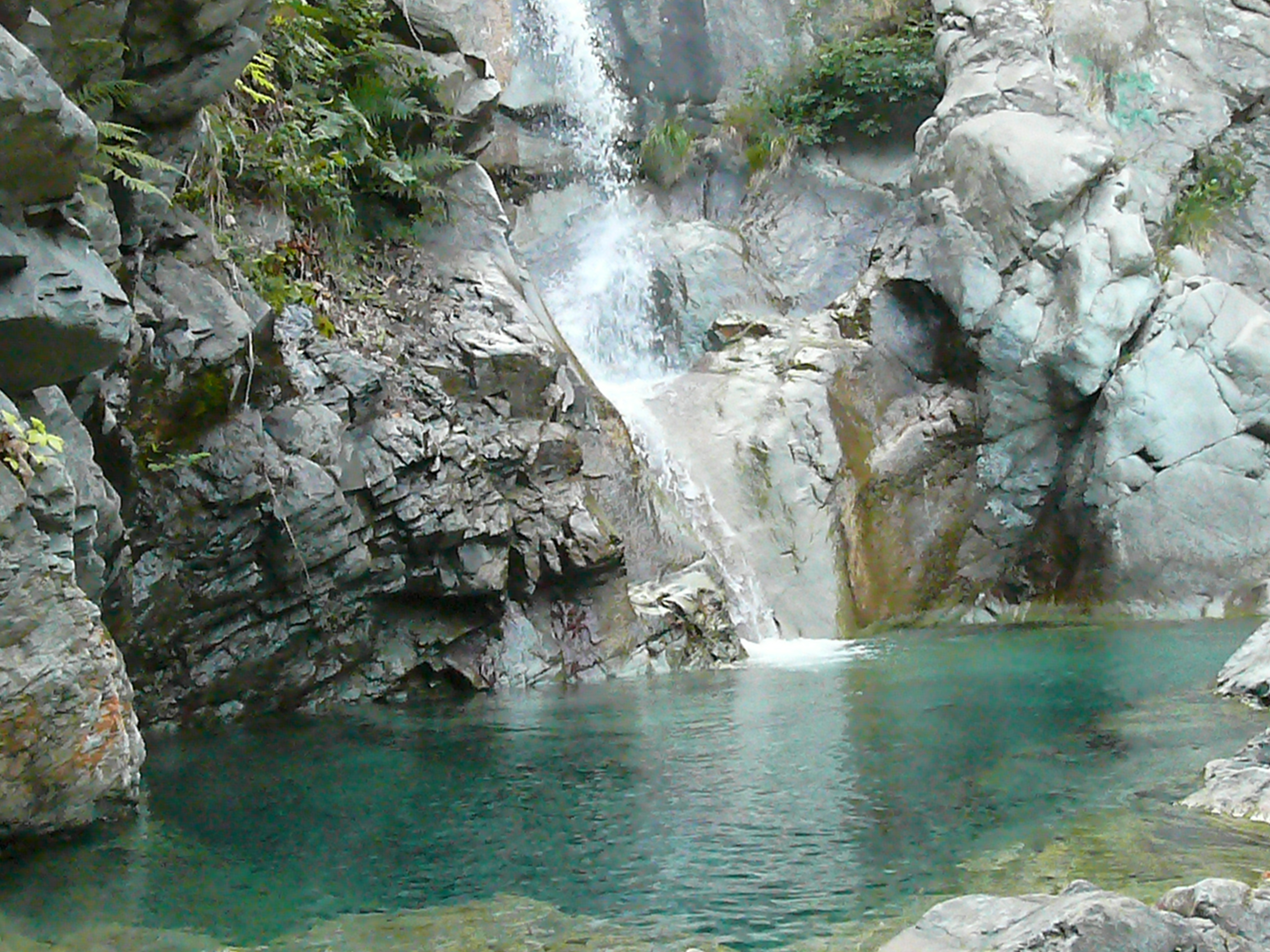 Val Varenna near Pegli (Genoa